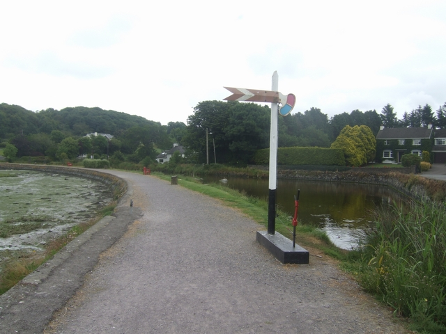 Timoleague and Courtmacsherry Light Railway, near to Tigh Molaige, Spital Bridge and Abbeymahon, Cork, Ireland. Operated from 1891 to 1962 with a connection to Ballinascarty. Engines called 'Slaney', 'St Molaga' and 'Argadeen' worked the line bringing in summer excursion trains and transporting vast quantities of winter sugar beet.